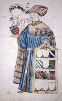 John Norman, Lord Mayor 1453-1454, dressed in aldermanic robes. Norman was also a member of the Drapers' Company.[1]